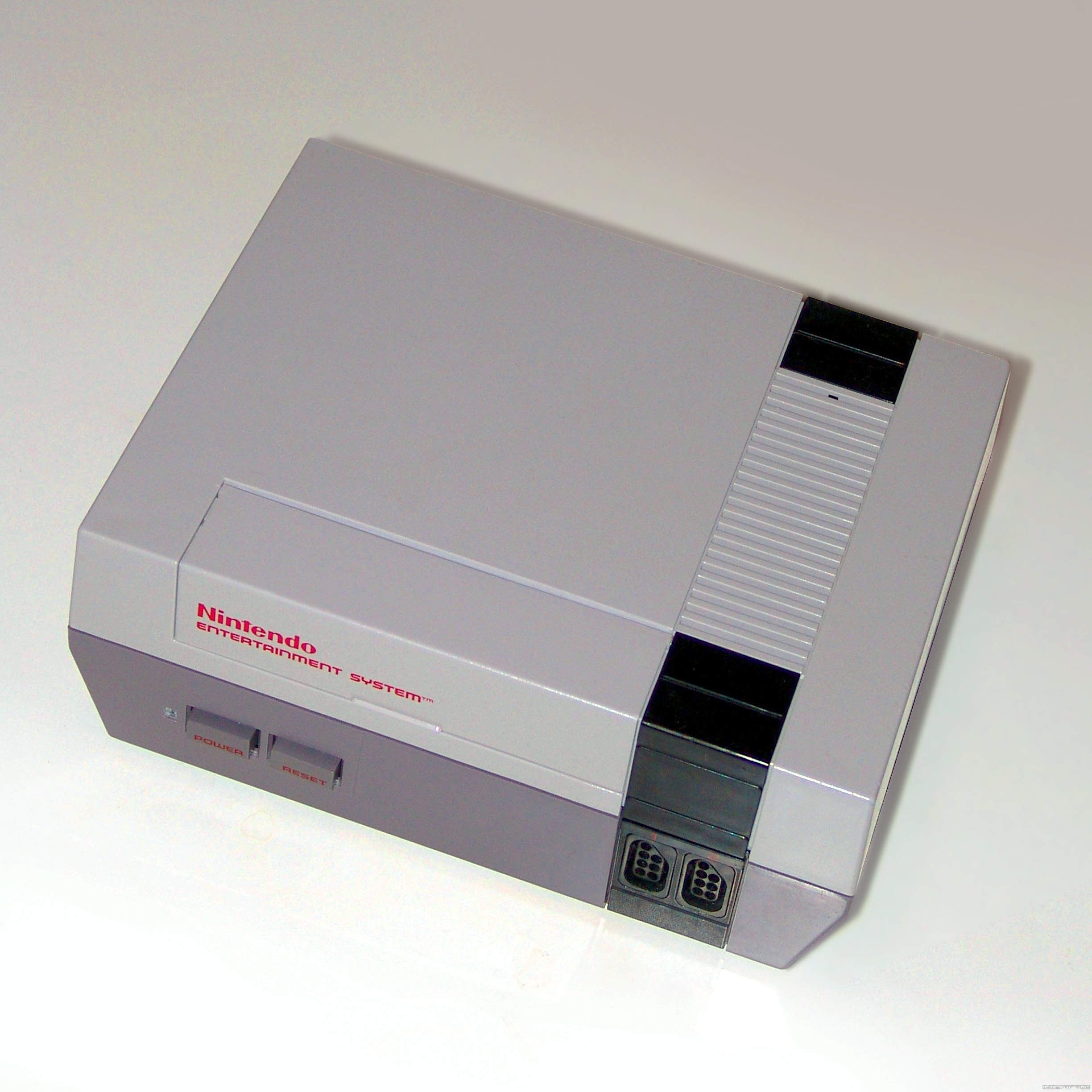 The classic Nintendo Entertainment System, also known as Famicom, taken with a Sony CyberShot DSC-F828.